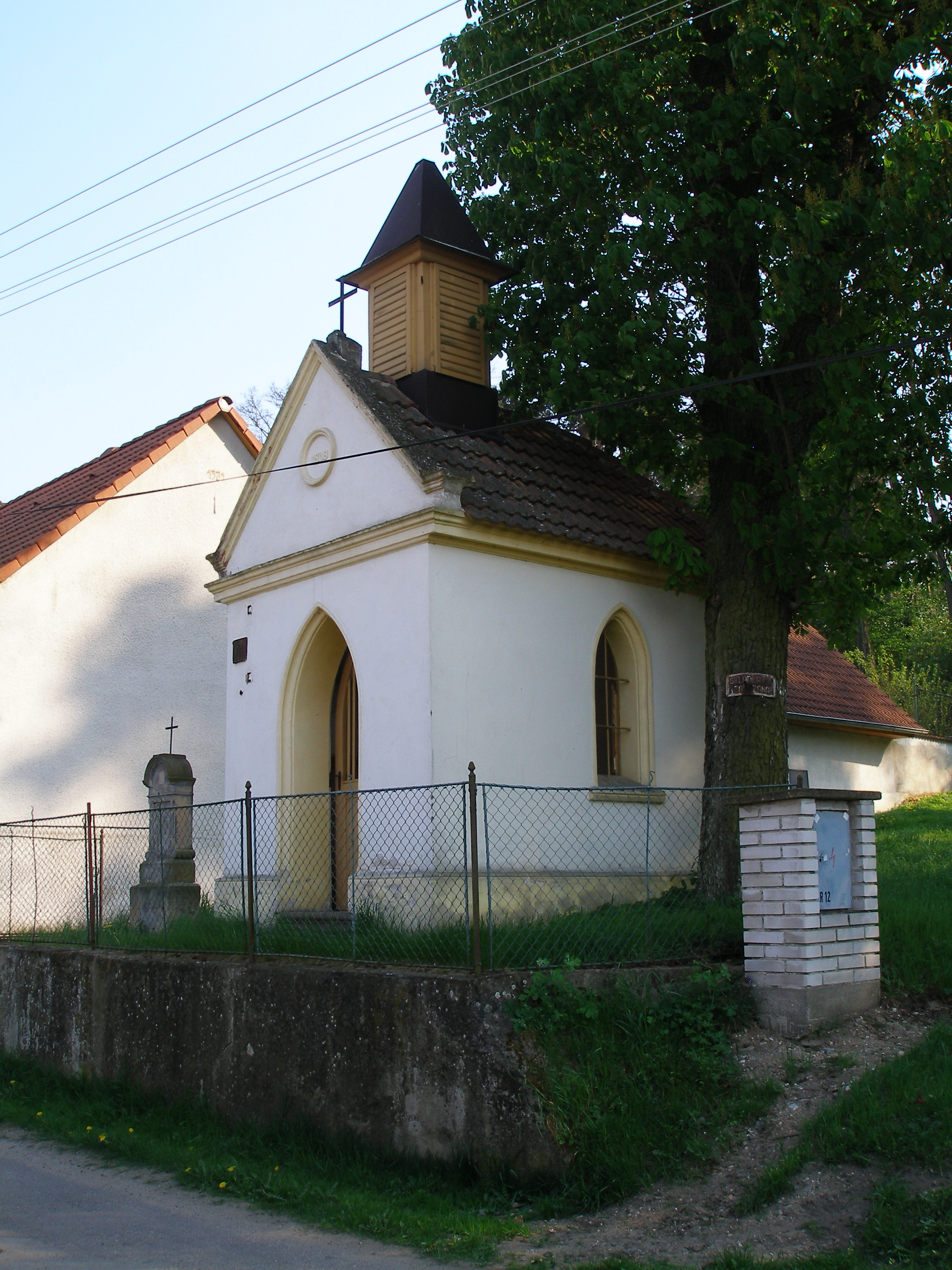 Chapel in Podvlčí.